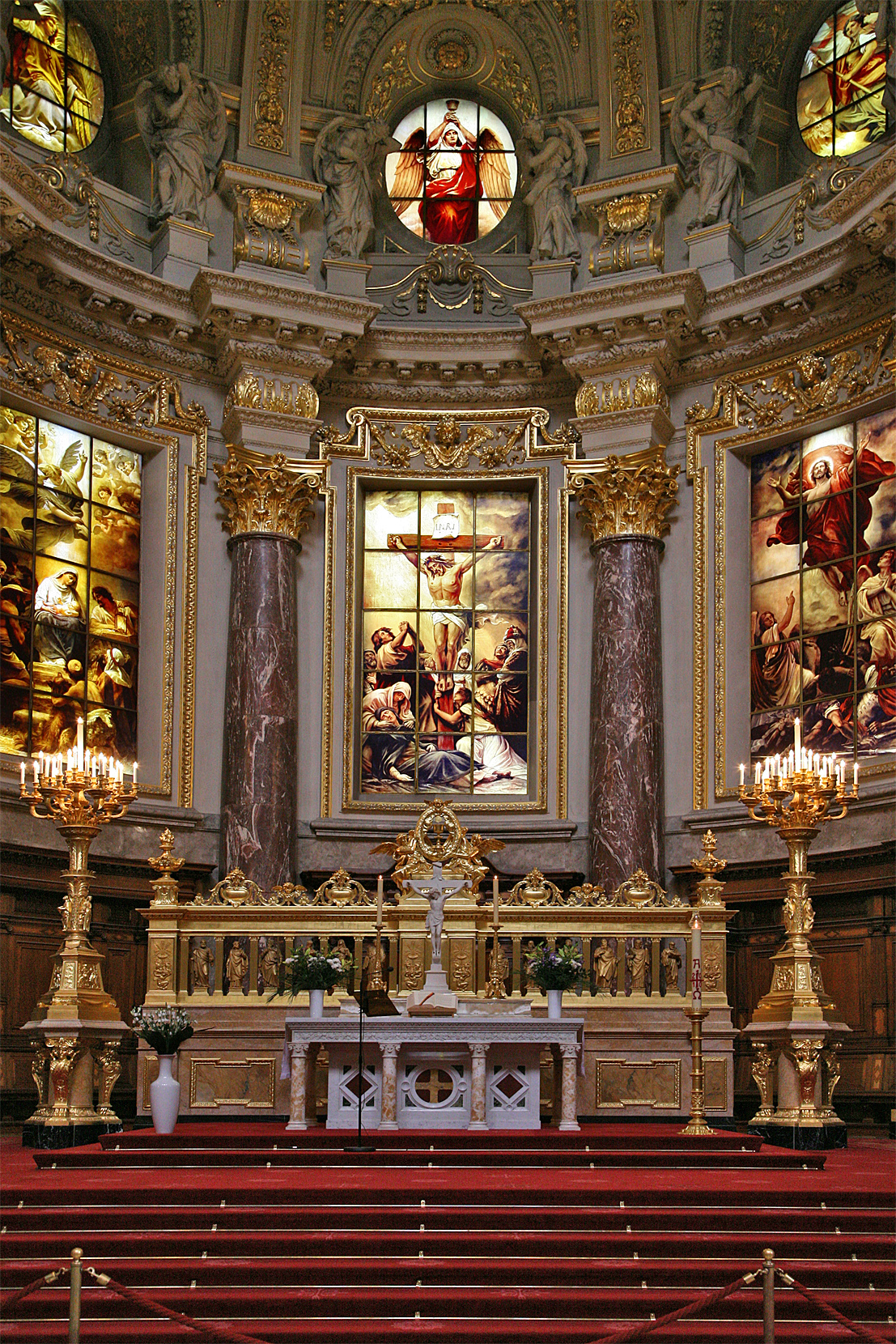 Berliner Dom: The cathedral, erected in Baroque, is one of the largest Protestant churches in Germany and the largest church in Berlin.